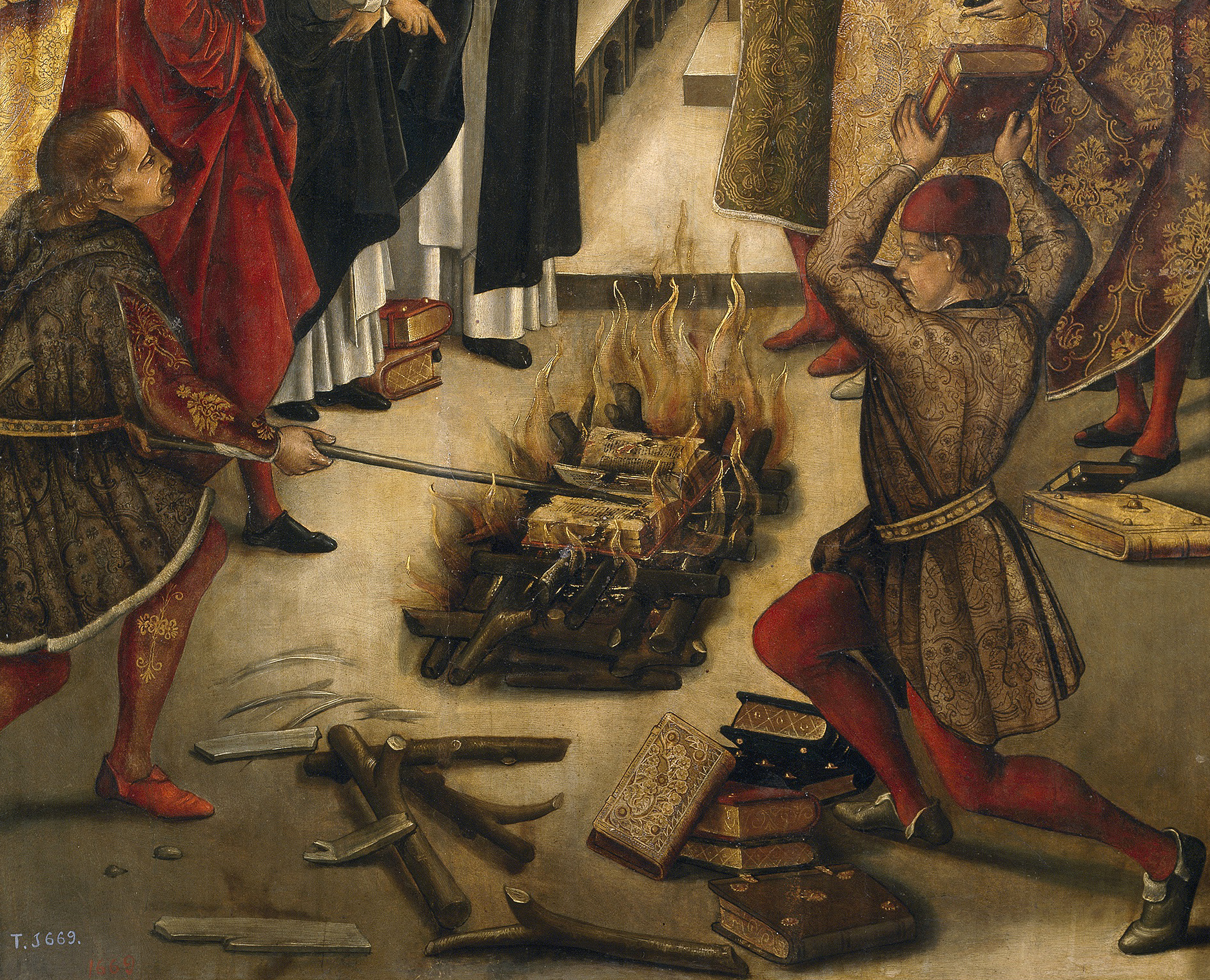 This portrays the story of a dispute between Saint Dominic and the Cathars in which the books of both were thrown in a fire and St. Dominic's books were miraculously preserved from the flames. This was believed to symbolize the wrongness of the Cathars teachings.